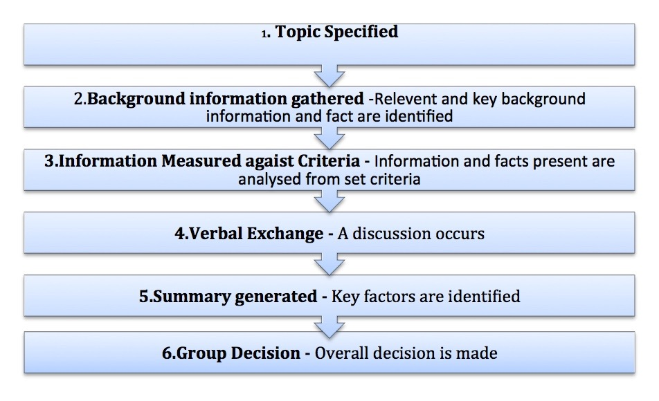 Figure 1 - Knowledge Based Decision Making (KBDM) Process